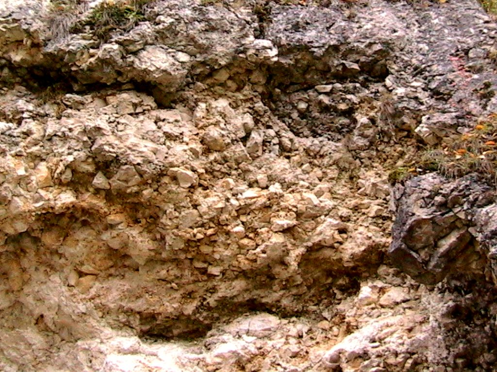 Breccia of shattered Limestone from the Burgstall quarry at the southern crater rim of the Steinheim Basin. Image is about 1 meter wide.